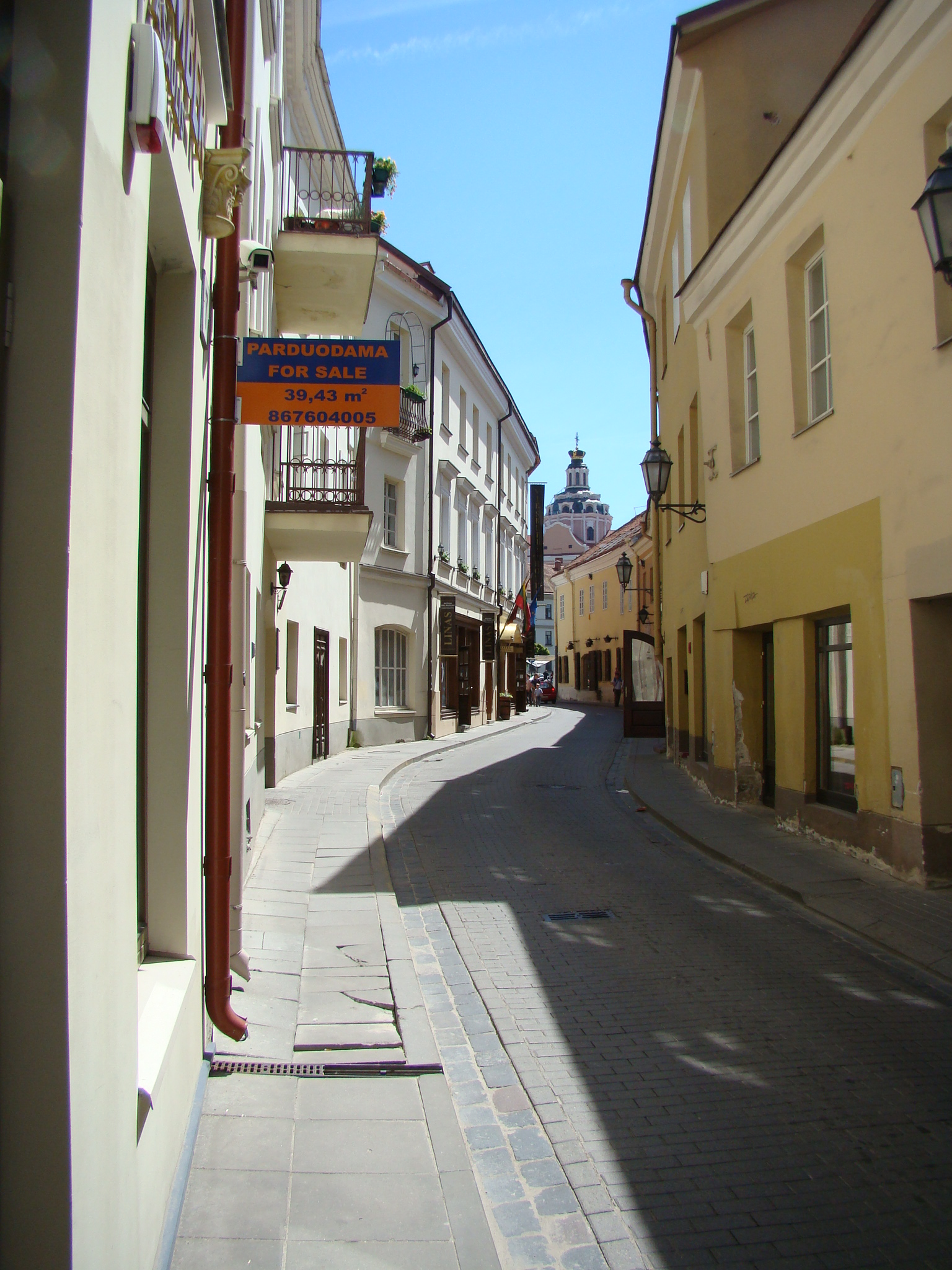 Stikliu street in Vilnius old town